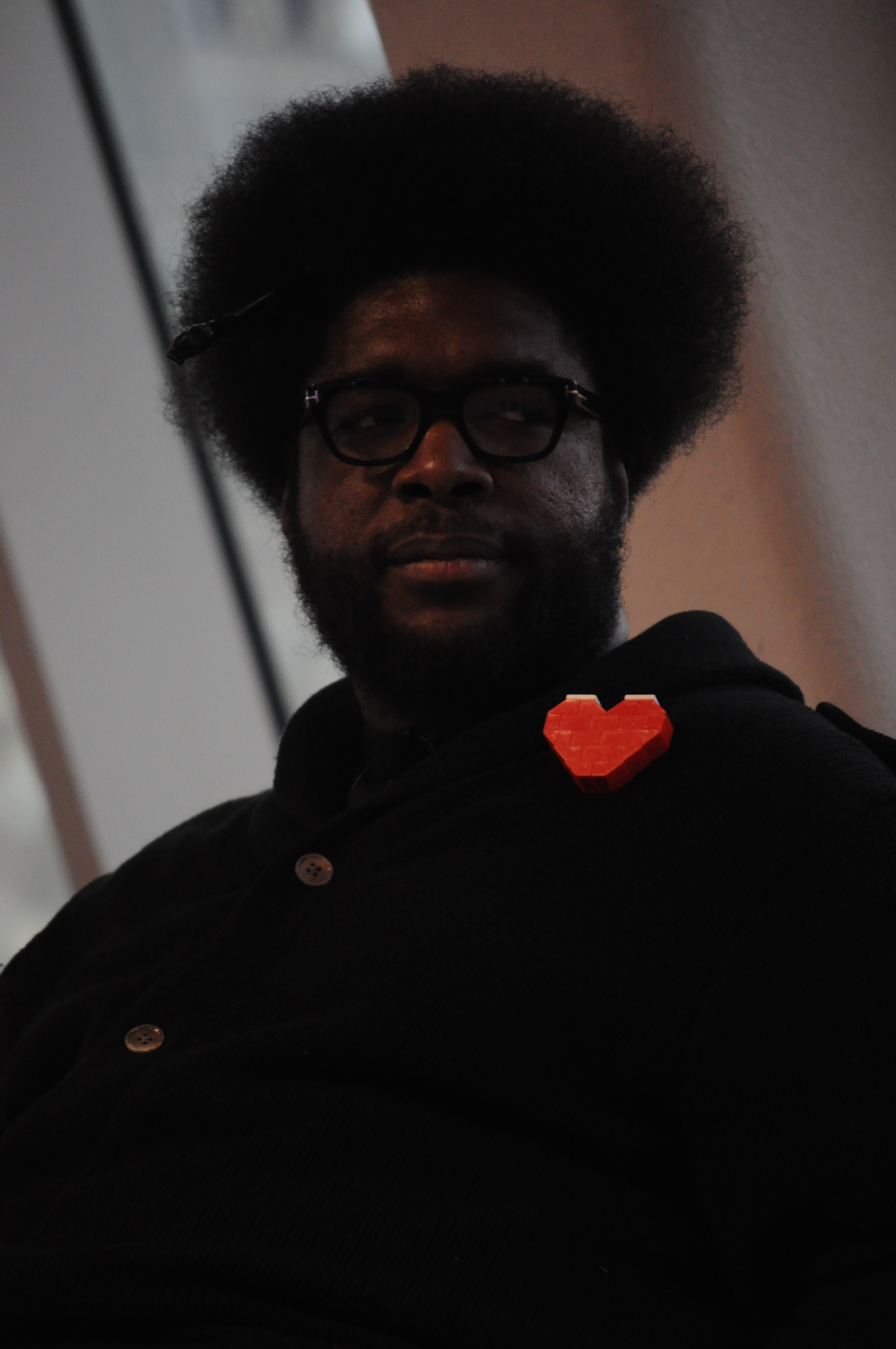 Questlove (a.k.a. ?uestlove) appearing at the 2012 Pop Conference, at NYU.